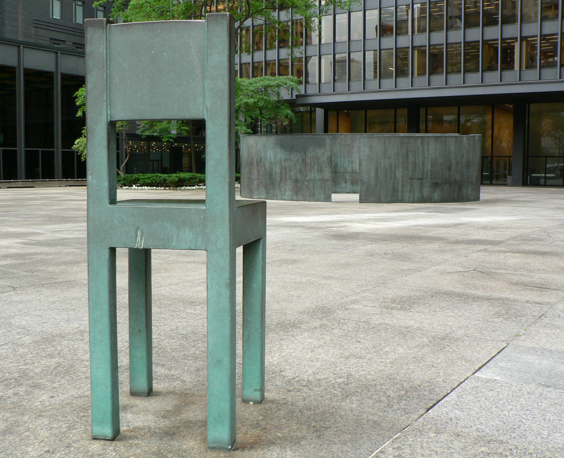 Sculpture on the King St. Side of the TD Centre courtyard (Wall and chairs (1985) by Al McWilliams) Location: King Street in Toronto/Canada